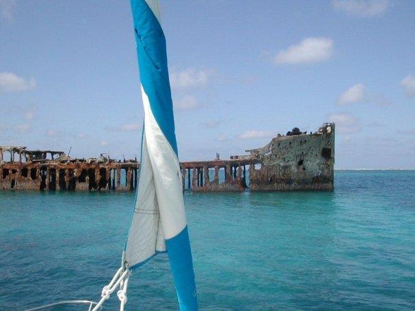 Sailing our 10.5 Meter Gemini Catamaran in Bimini Waters.